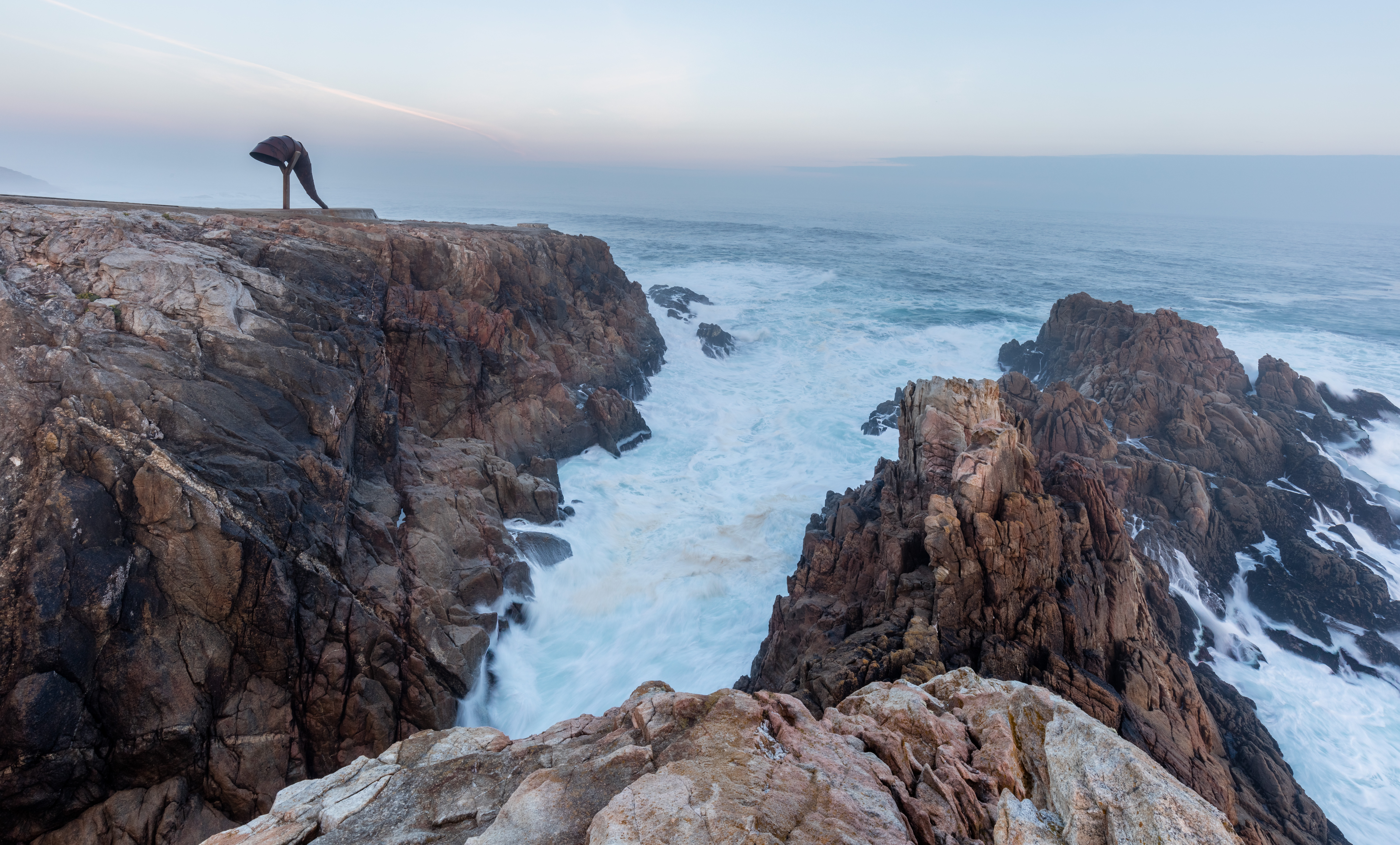 Caracola (Snail), Tower Park, La Coruña, Spain